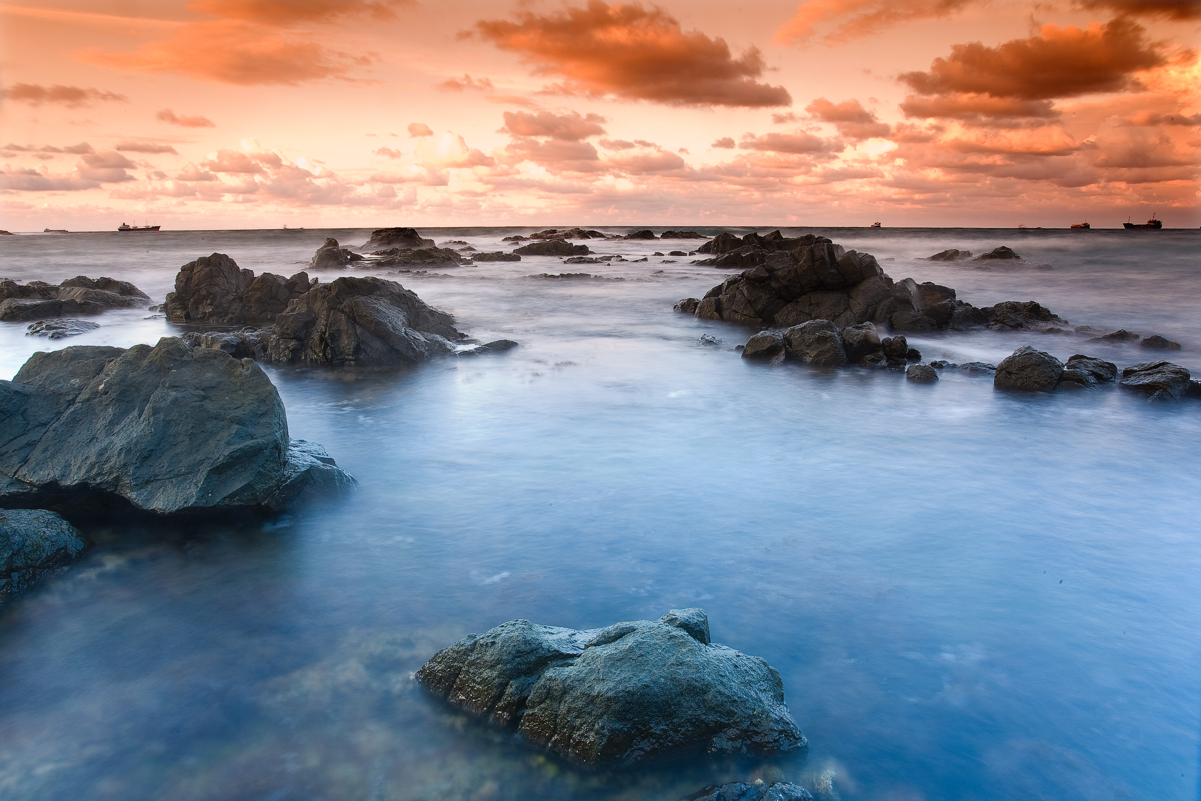 Long exposure photograph from Dalia Beach in Kilyos, Istanbul, Turkey. Cokin GD Tobacco, P120 used.